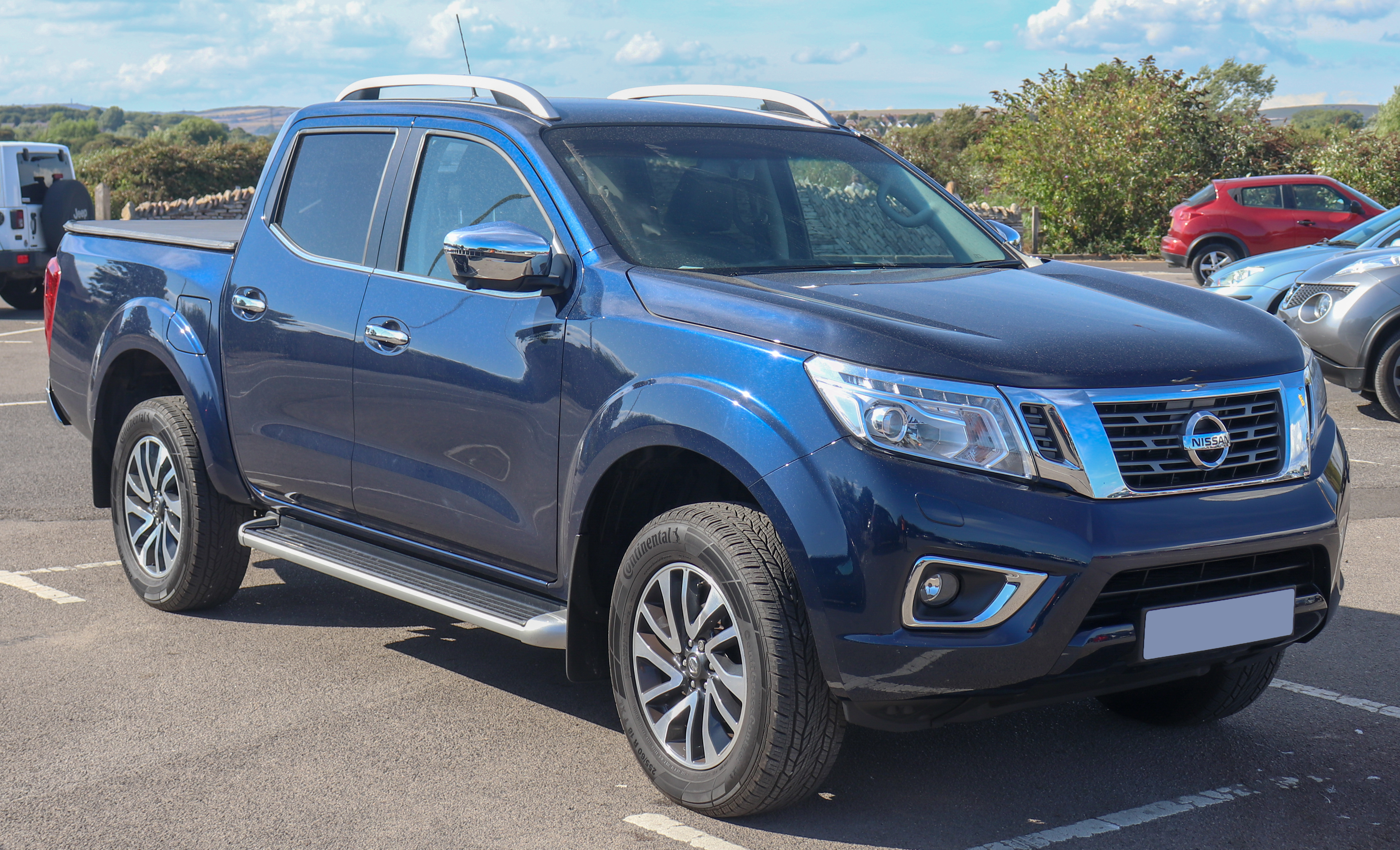 2017 Nissan Navara Tekna DCi 2.3 Front Taken in Weymouth, Dorset